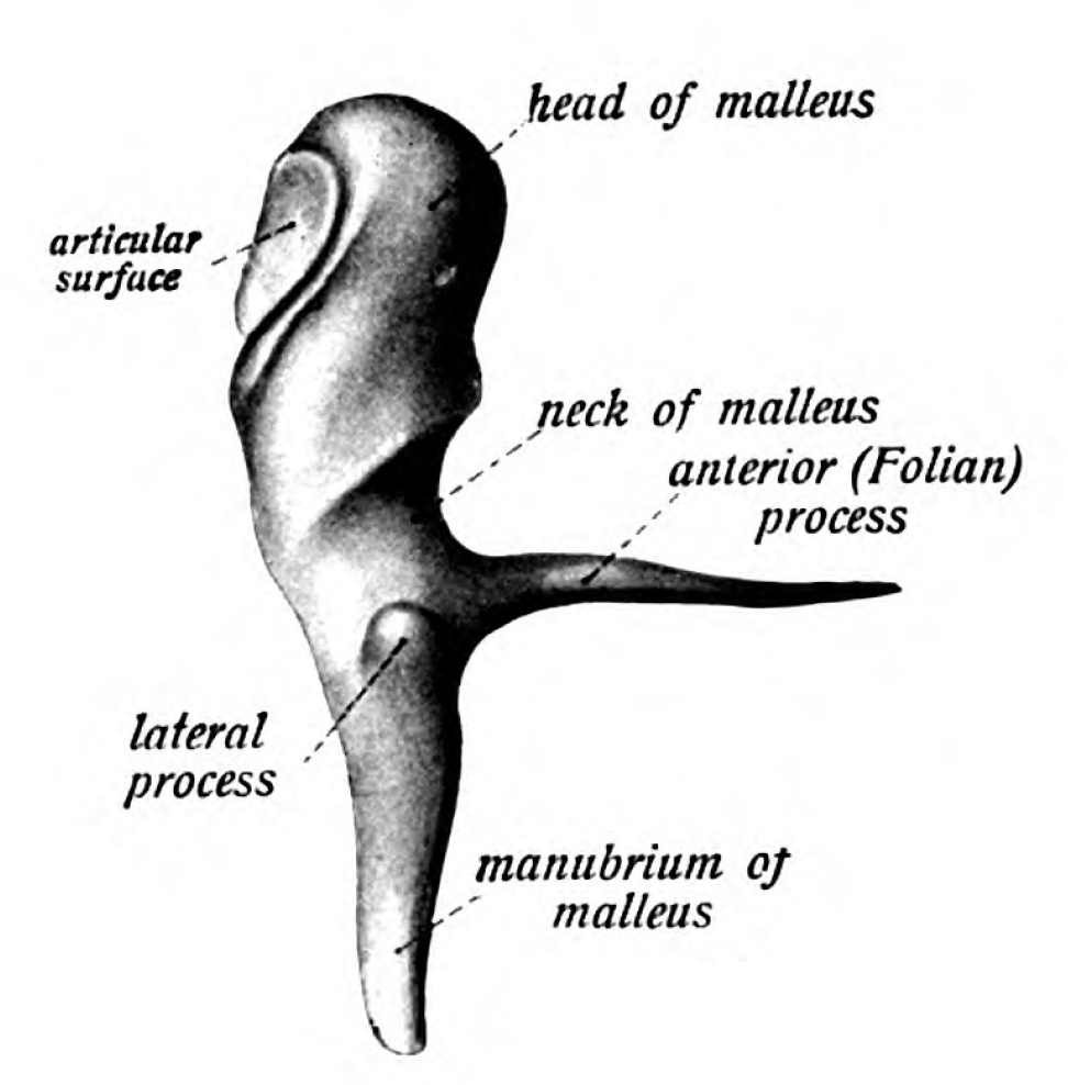 An anatomical illustration from the 1909 edition of Sobotta's Anatomy